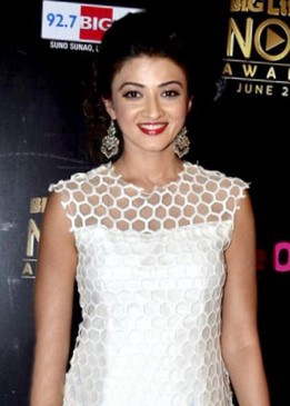 Suhasi Dhami graces ‘Big Life OK Now Awards 2014’.